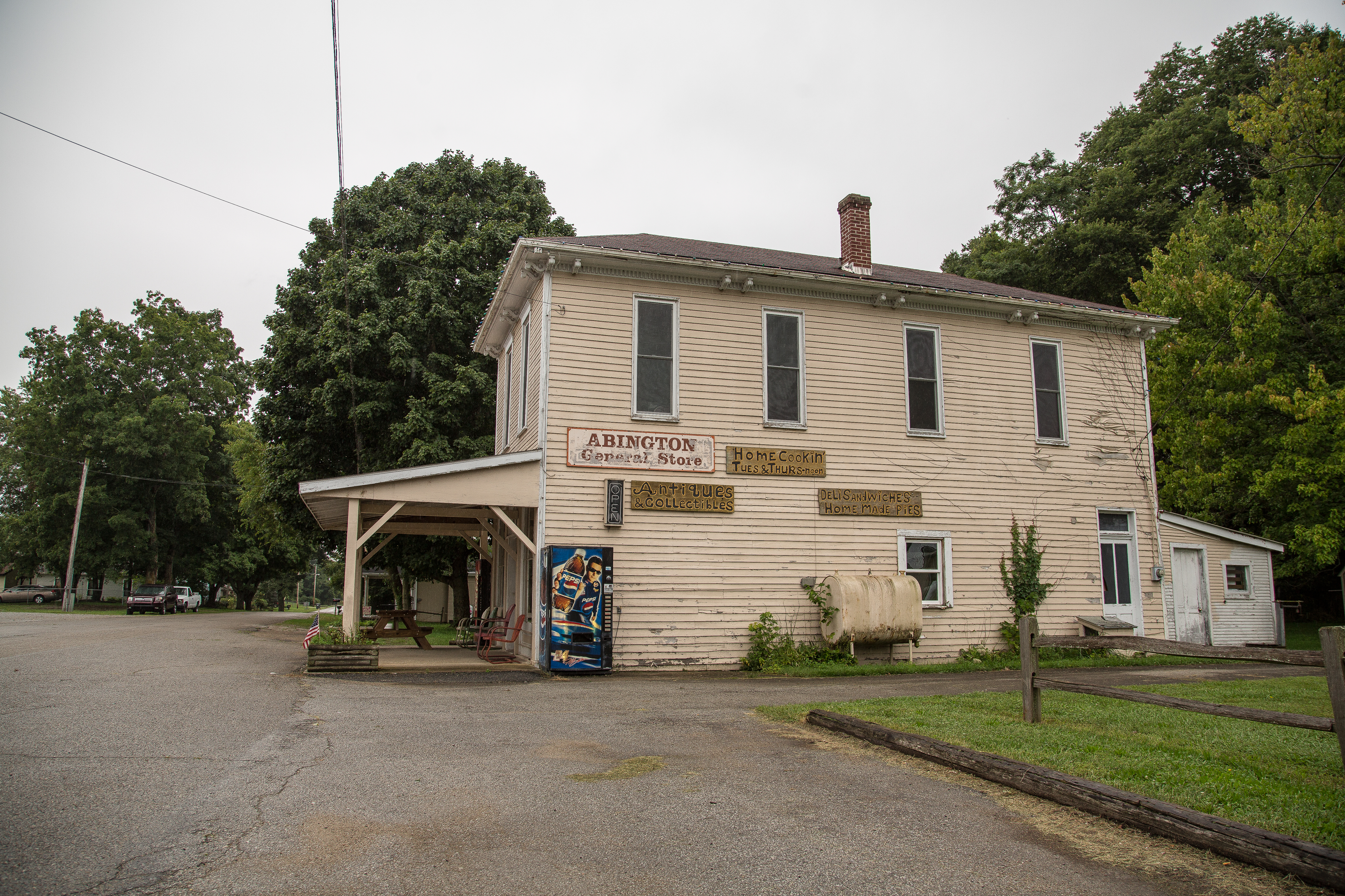 Photo from Small Town Indiana photo survey.